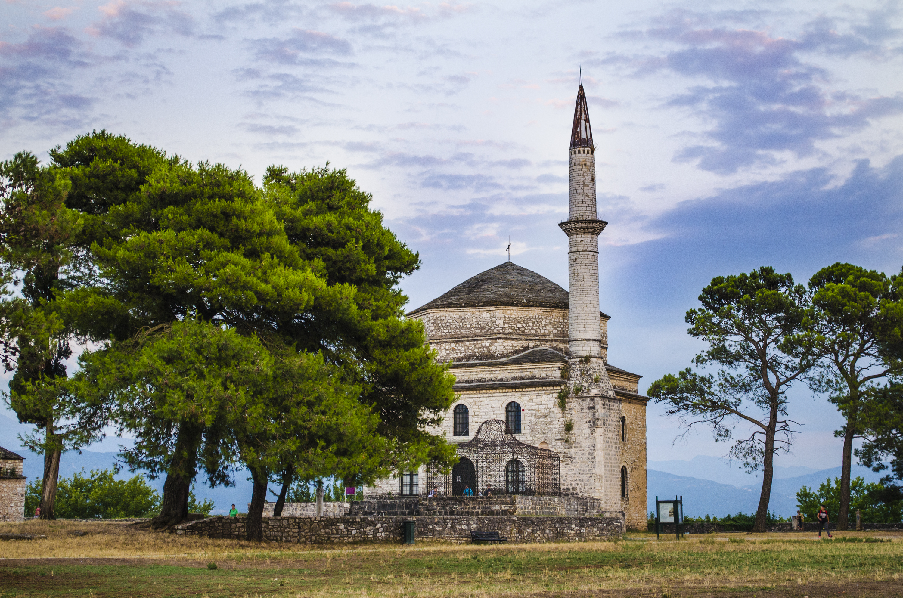 Fethiye Mosque (Ioannina)«Μαστιλίτσα»